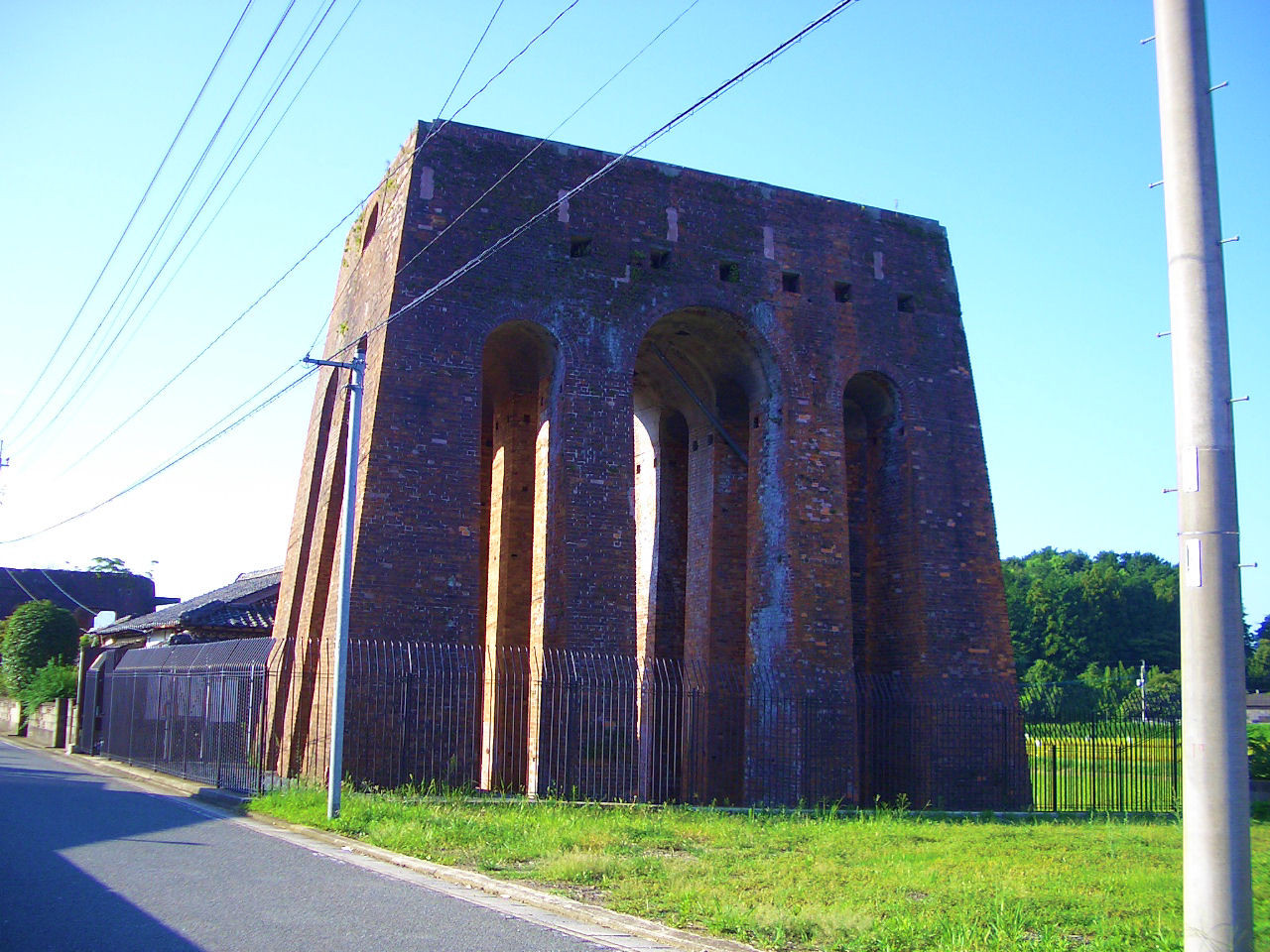 iizuka city, Fukuoka, Japan.